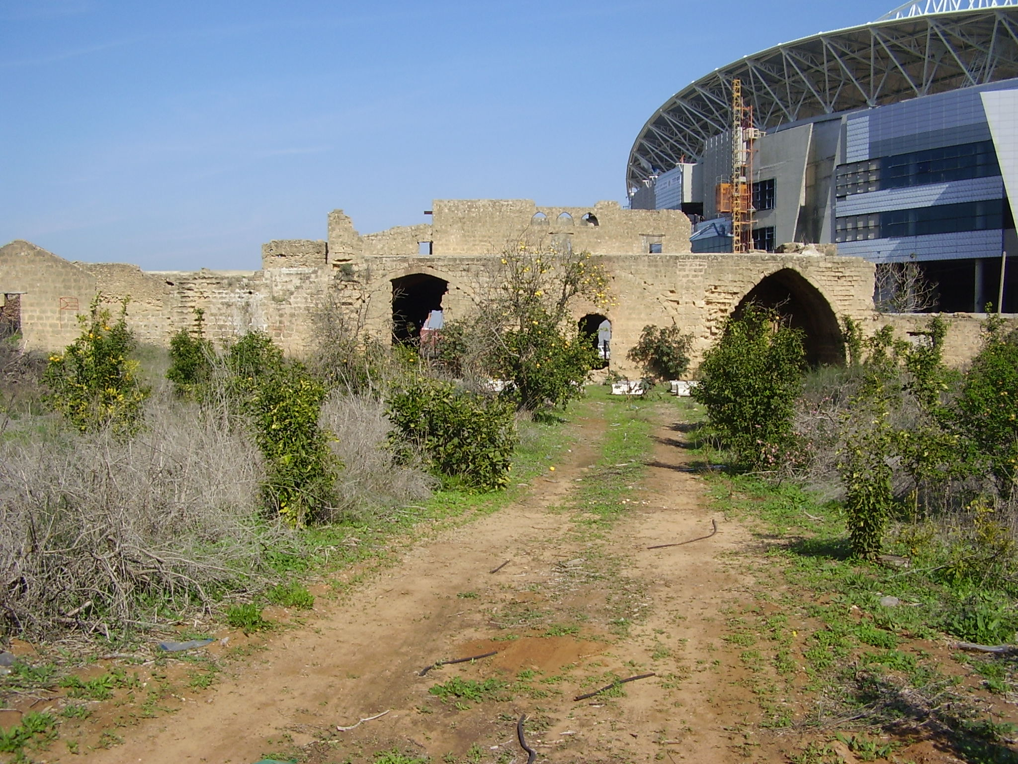 Khanun Farm in Netanya